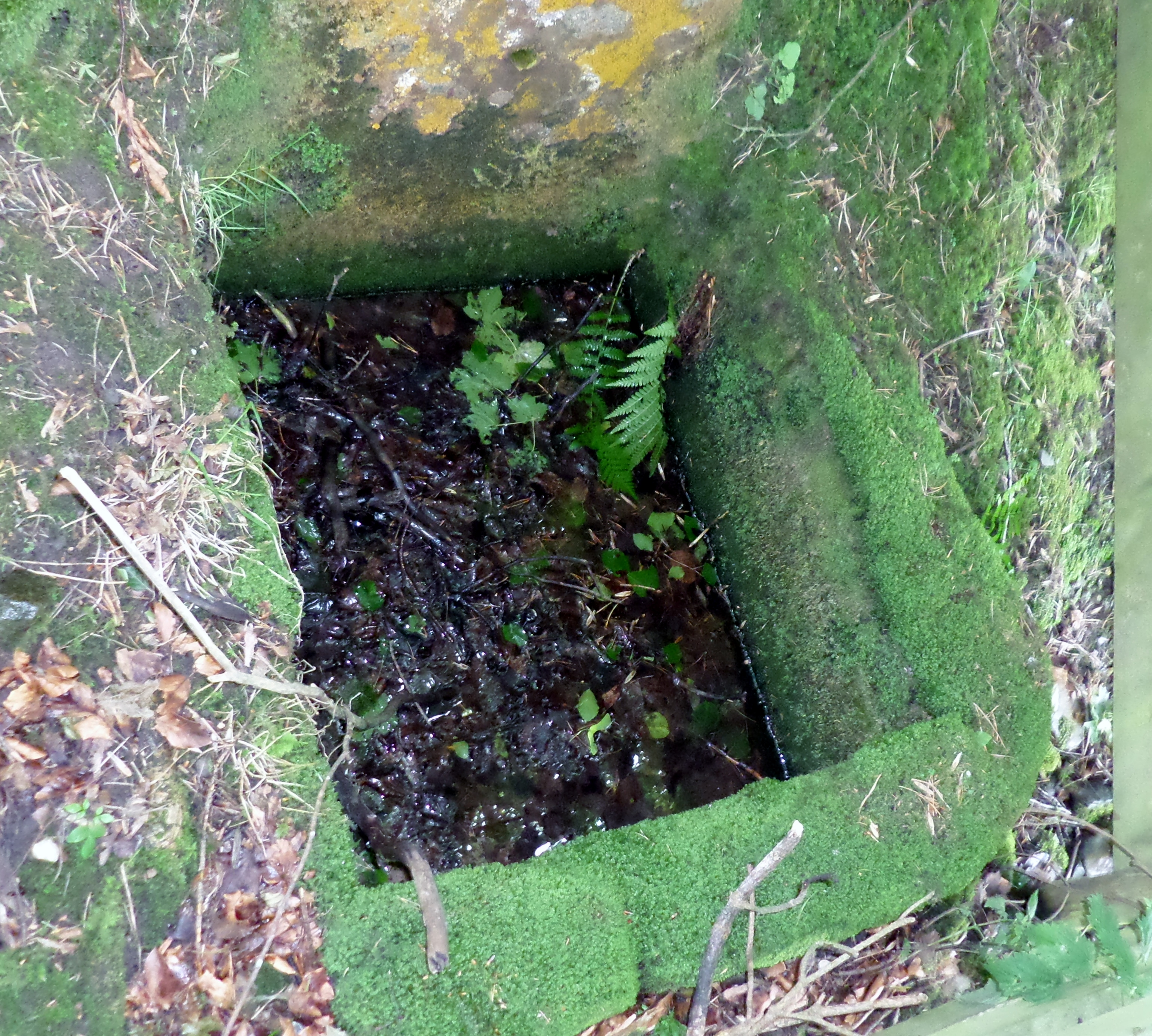 The Lady's Well spring, Auchmannoch, Near Sorn, East Ayrshire, Scotland.